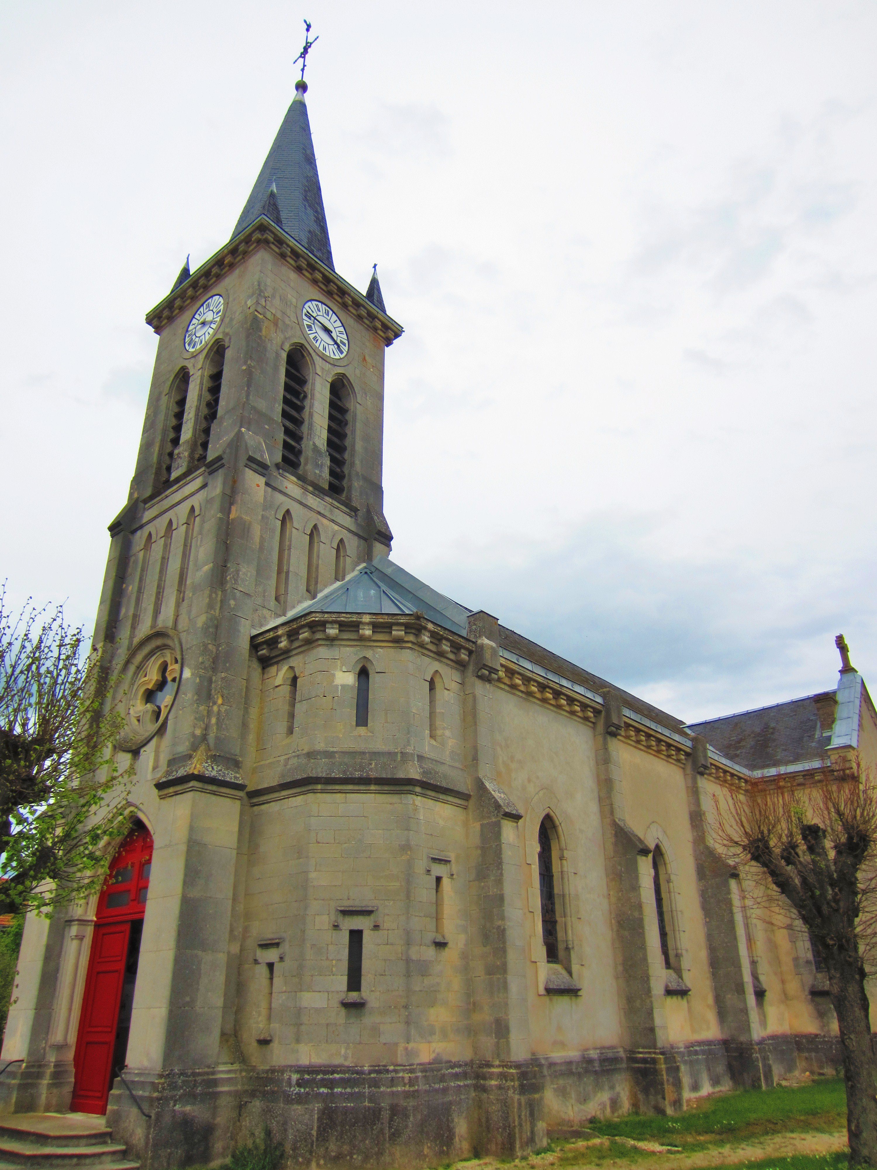 Rouvrois Meuse church